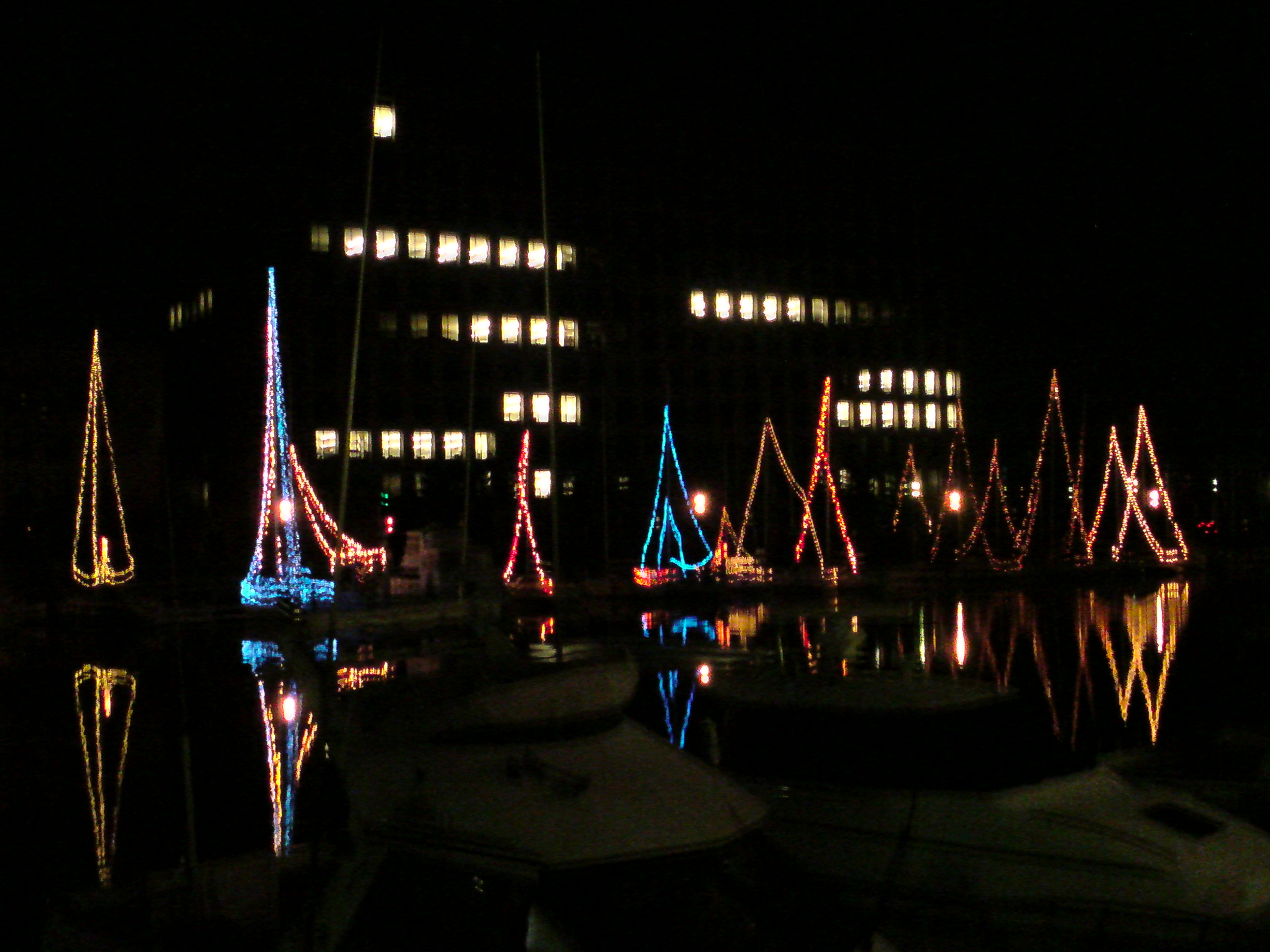 Illumination on a yacht harbor at 'Kenchopia', Shinmachi River, Tokushima City, Japan.